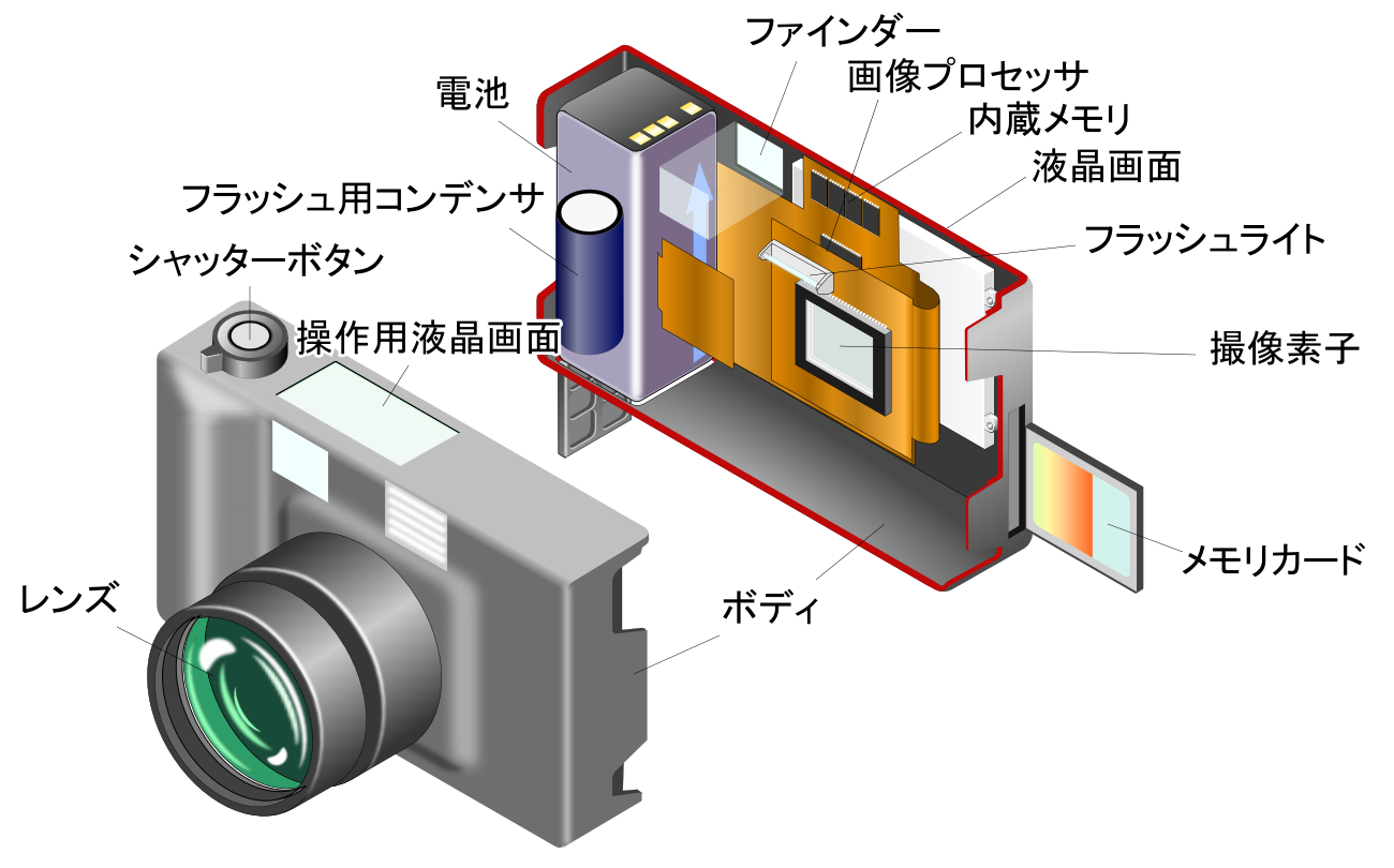 Digital camera inside model by Japanese